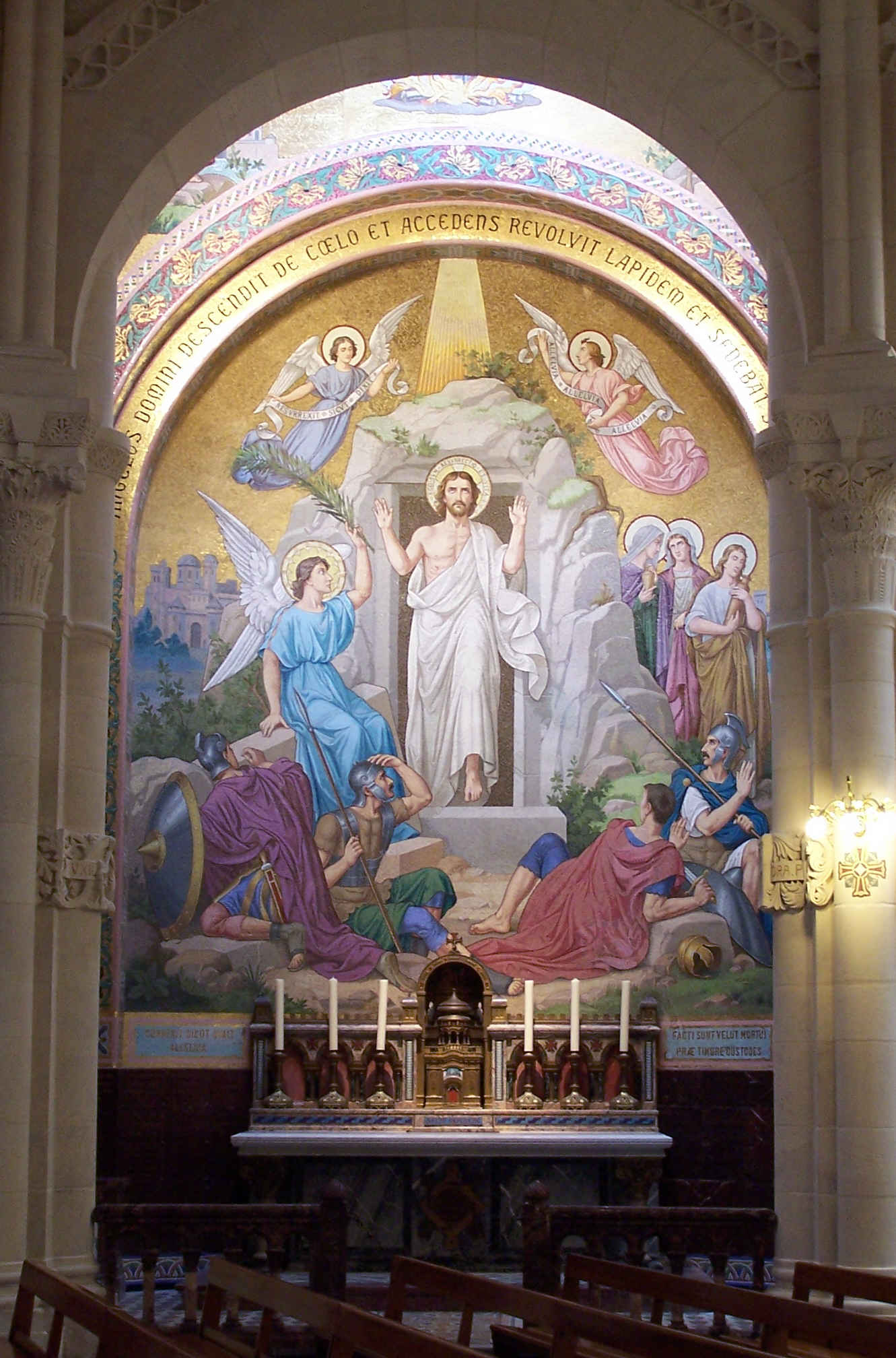 Image of a side chapel of the Rosary Basilica, Sanctuary of Our Lady of Lourdes, France. The main image is a permanent mosaic depicting the Resurrection, and was completed in about 1900. (The Basilica was consecrated in 1901). Kodak DX6490 digital camera.